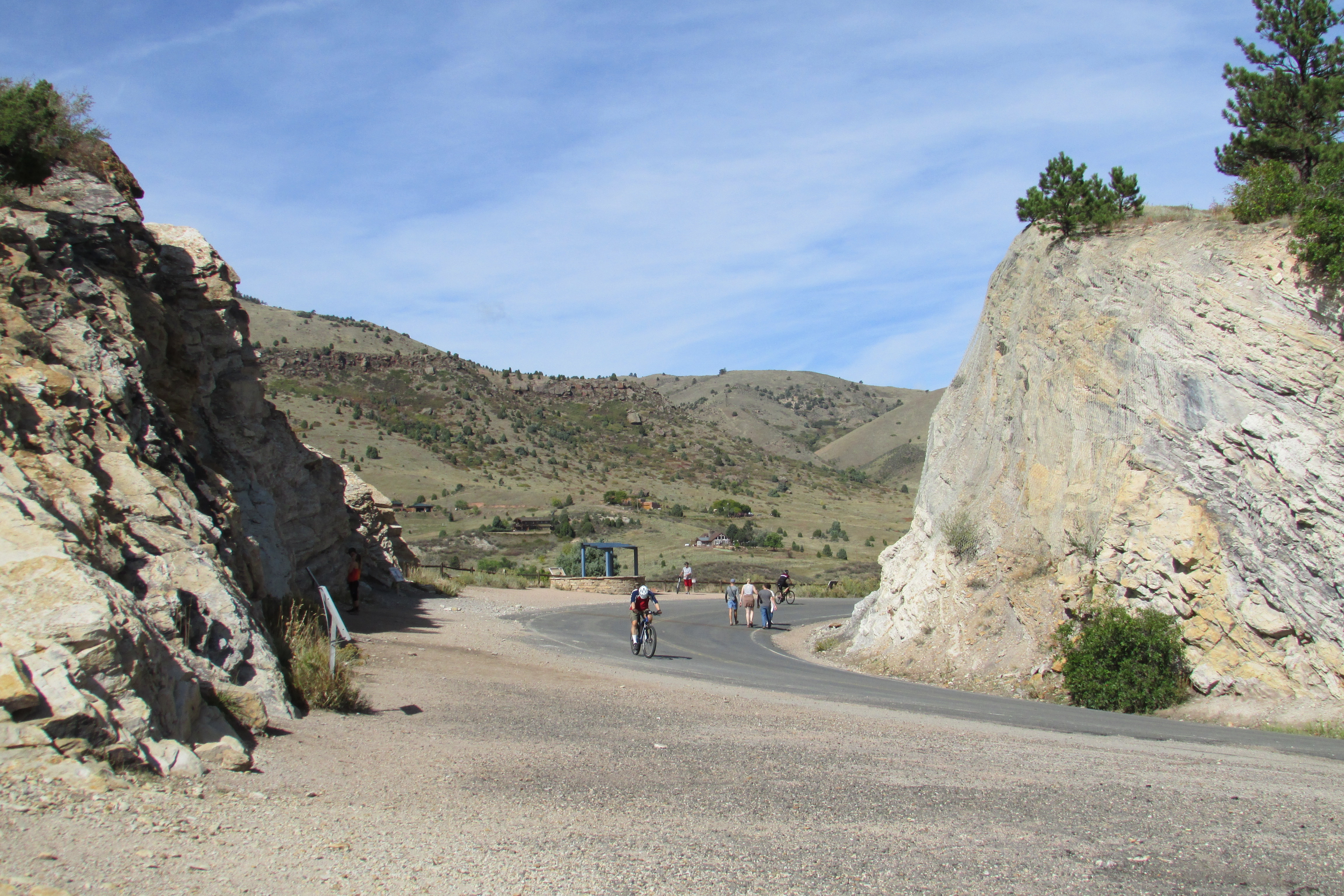 Cretaceous period sandstone layer at the top of Dinosaur Ridge, Morrison Fossil Area National Natural Landmark, Colorado.